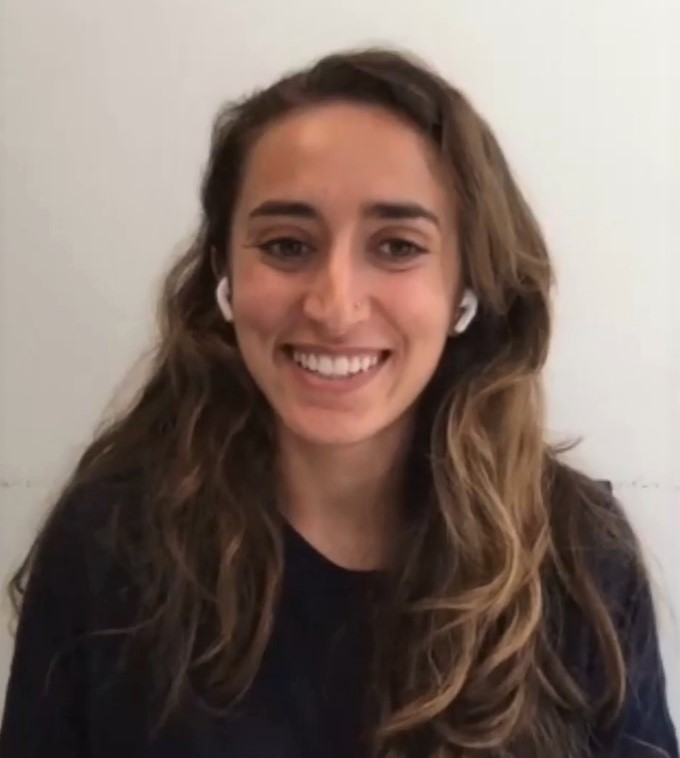 Coffee with Sarafina Nance Coffee Time is back - and I'm so thrilled to kick of this remote edition with the incredible Sarafina Nance. You might know her from her booming Twitter channel, the powerfully public sharing of her personal health journey, or her expertise on exploding massive stars (hello Betelgeuse!). We talk about about social media, science communication, support in academia, and of course her NEW YouTube channel -- Welcome to the Astro YouTube family, Sarafina! Sarafina Nance Her new video: "When Will Betelgeuse Explode?" Her "Drunk Science" video series VLOG GEAR: Nikon D7500 Sigma 17-50mm f/2.8 Nikon 70-300mm AF-P VR Takstar SGC-598 LINKS: Twitter: Academic: Code/Research: Blog: IG: YT